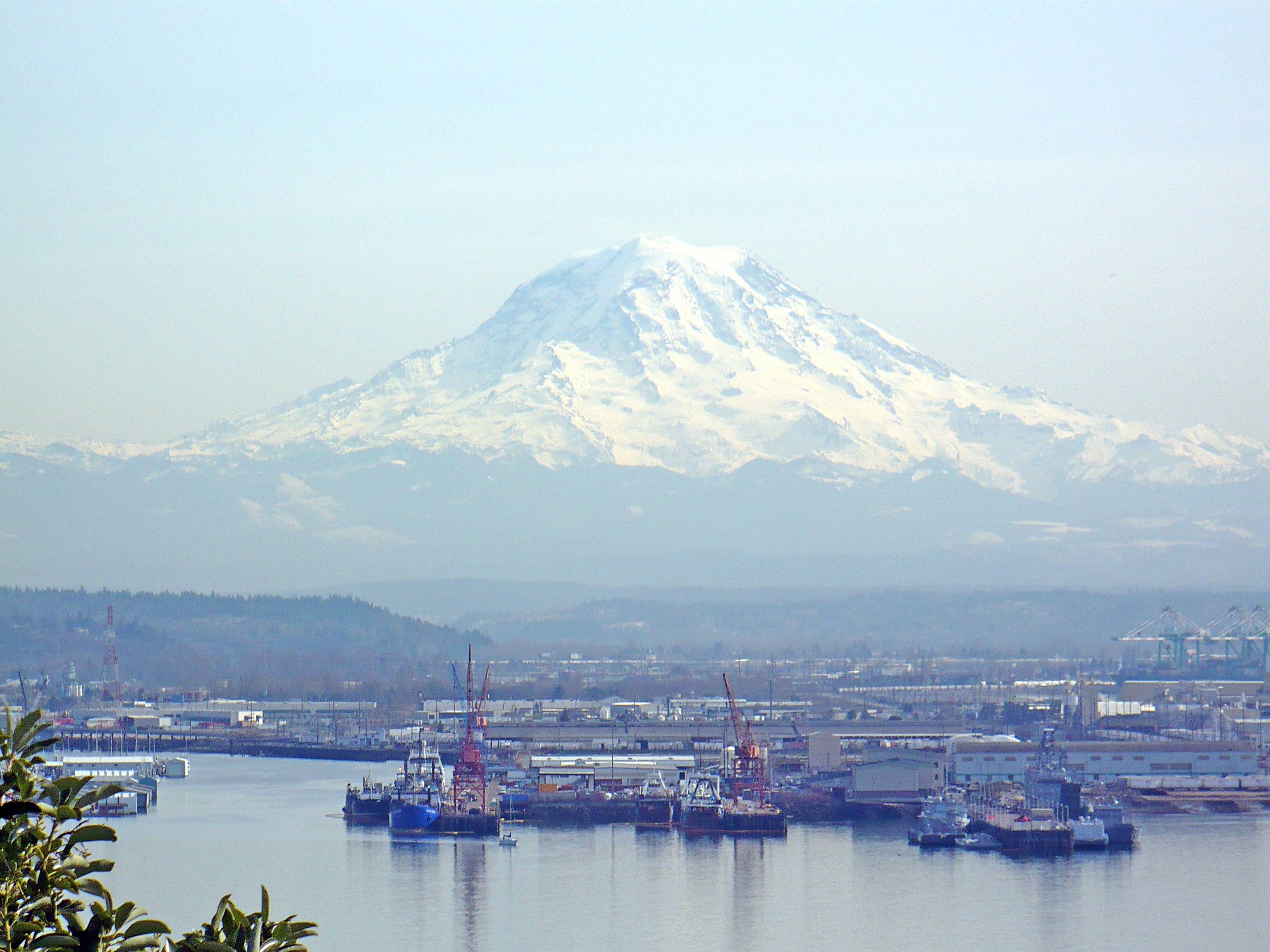 Mt. Rainier overlooking the Port of Tacoma